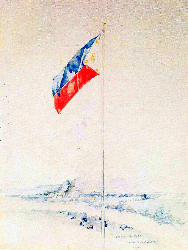 The painting, titled “Souvenir de 1899,” was completed by Juan Luna on May 21, 1899, in Leitmeritz, Bohemia.